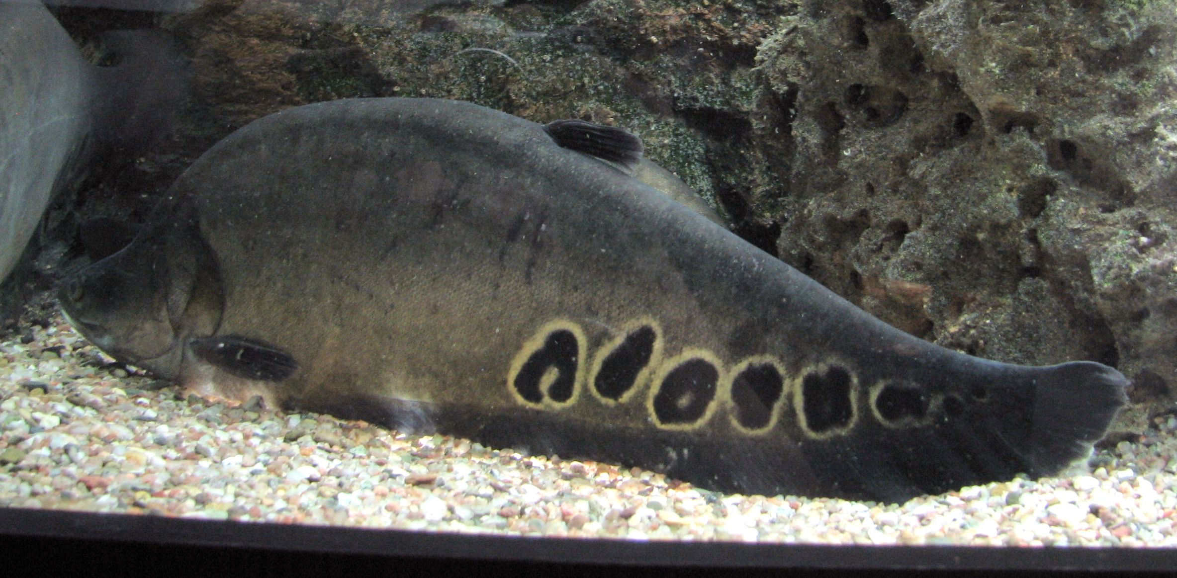 Chitala ornata in aquarium of ZOO Brno, Czech Republic